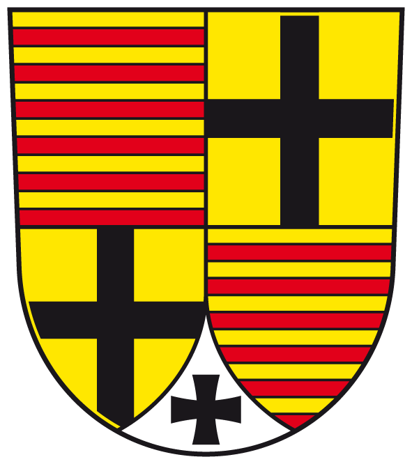 Coat of arms of Rheydt, Part of Mönchengladbach